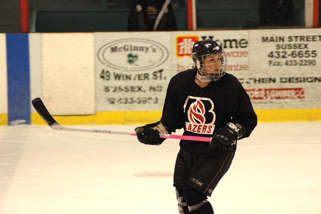 Hockey player from Bethany Bible College Blazers, Sussex, NB, Canada (2008)